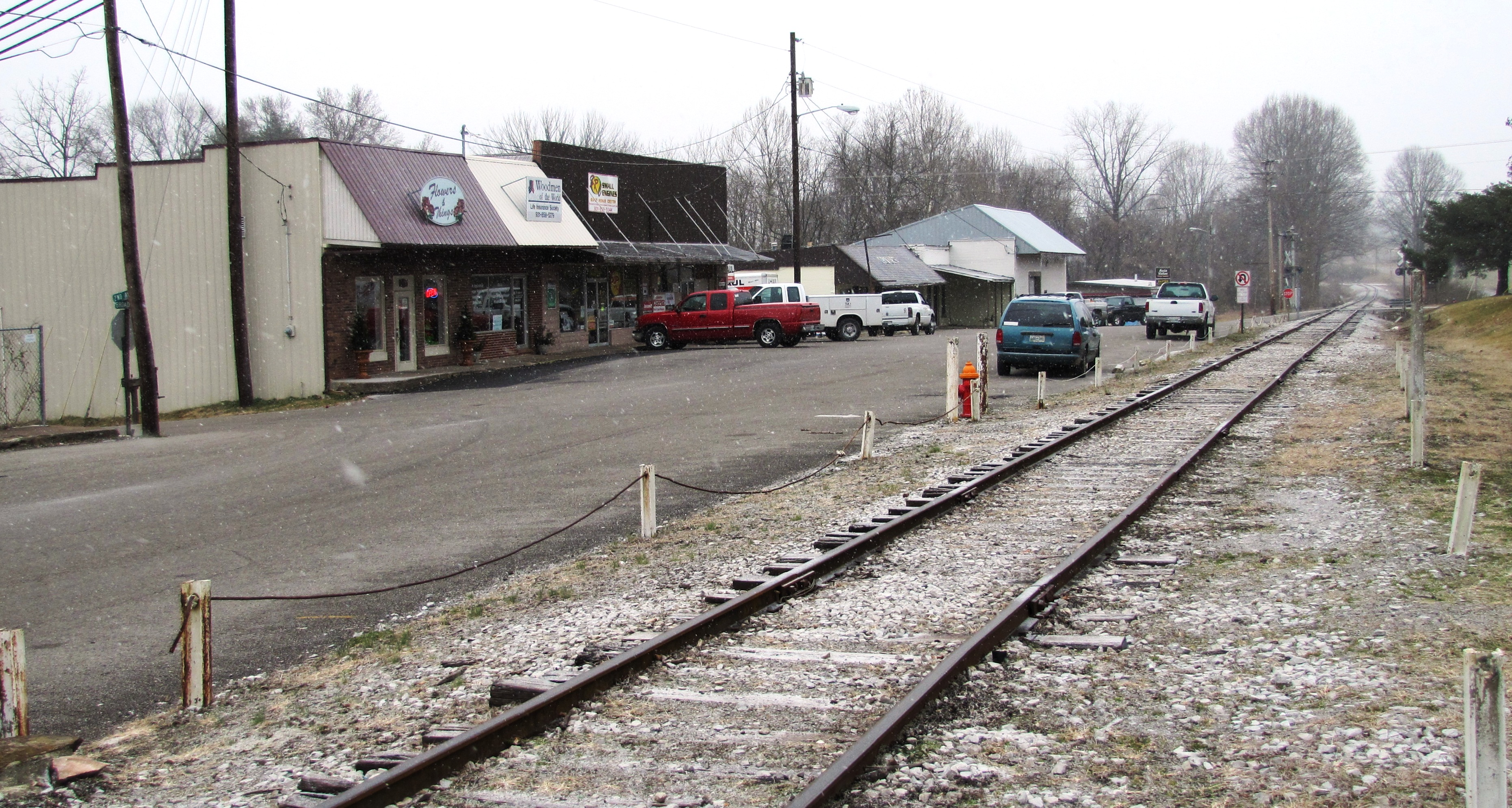 Main Street in Baxter, Tennessee, USA.